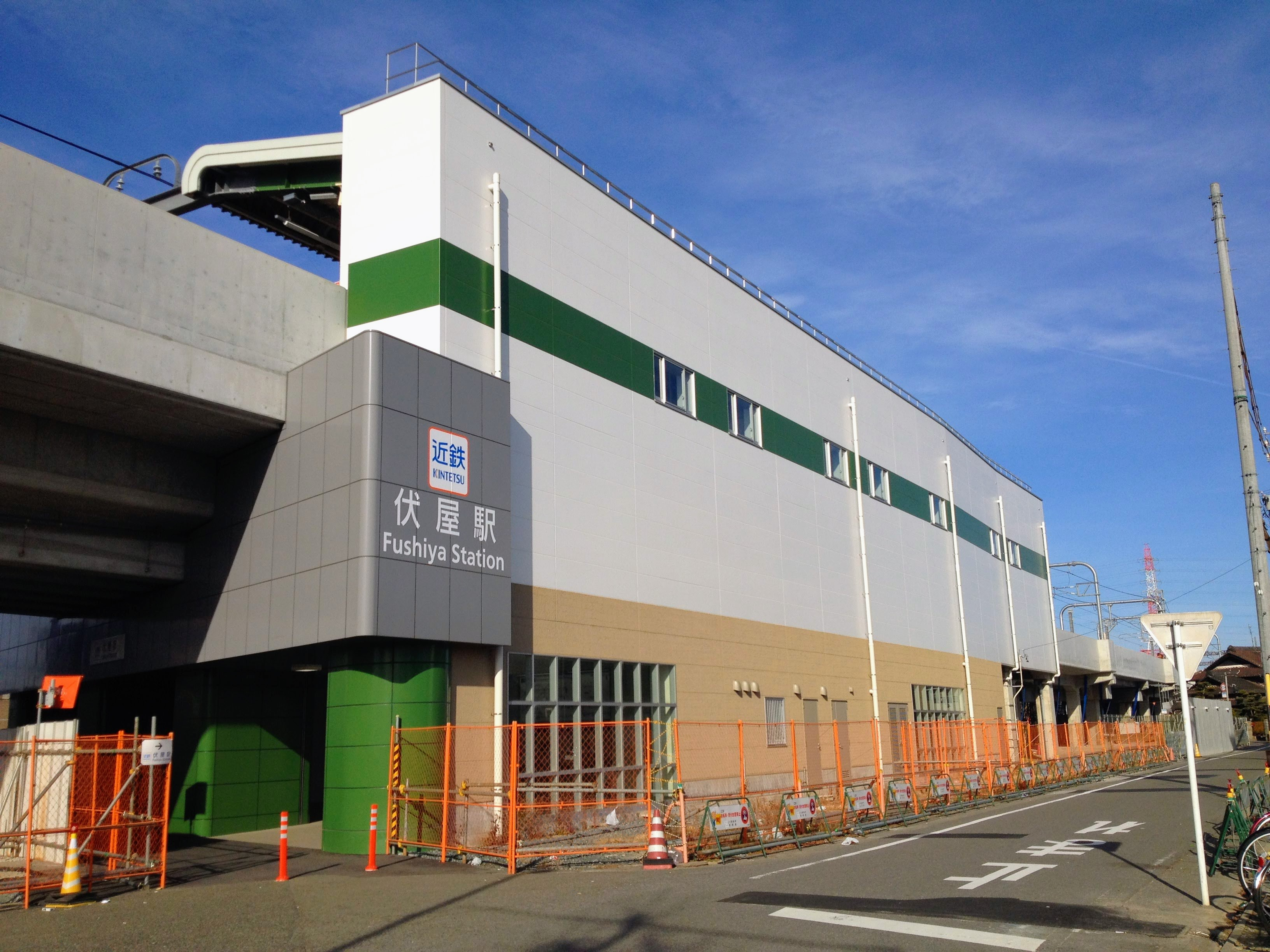 Fushiya Station in Nakagawa-ku, Nagoya, Aichi Prefecture, Japan